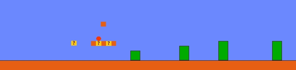 scheme of World 1-1 from Super Mario Bros.